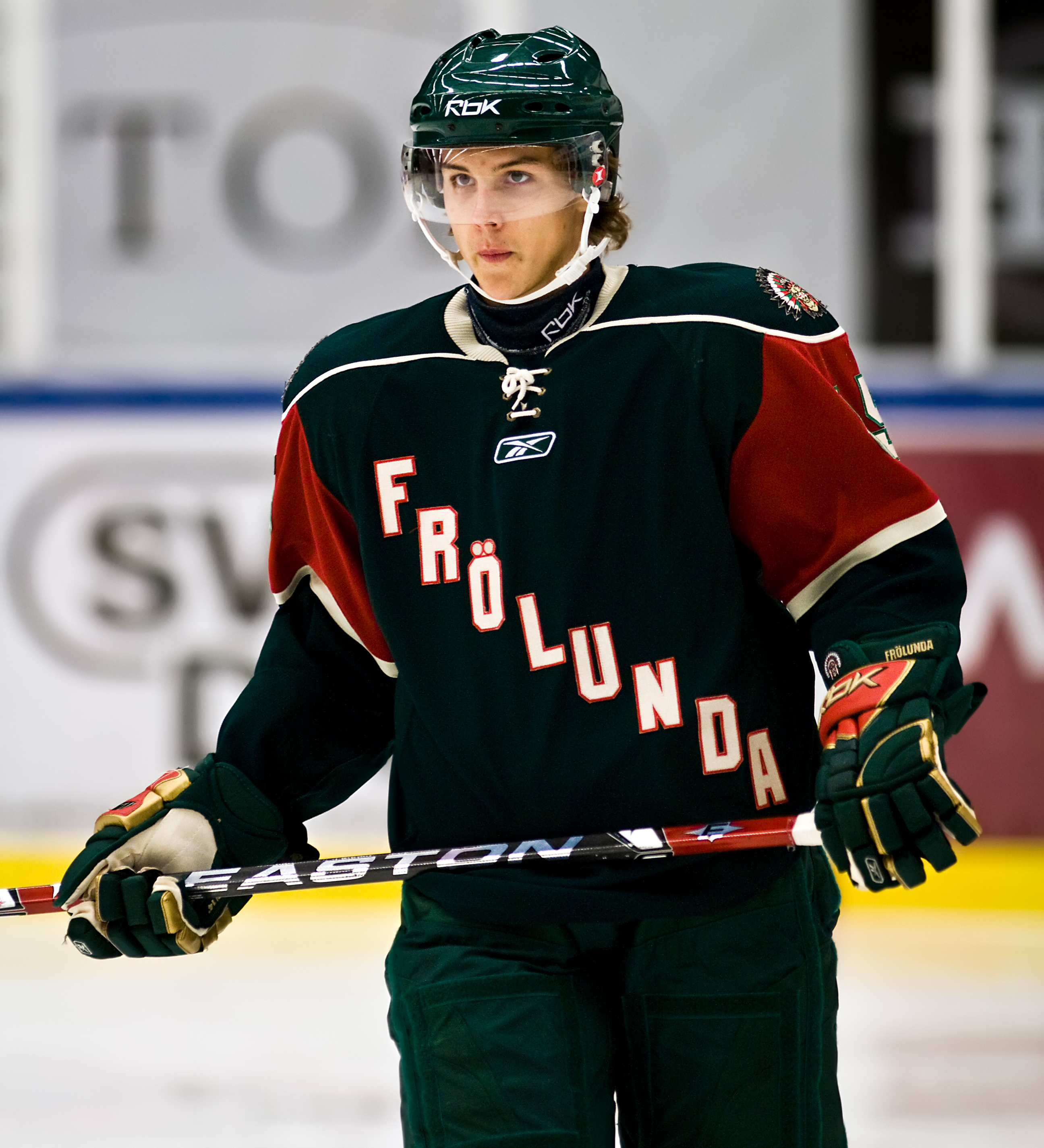 Erik Karlsson of Frölunda HC during a pre-season game against Jokerit in Borås Ishall, Borås, on August 21, 2008.